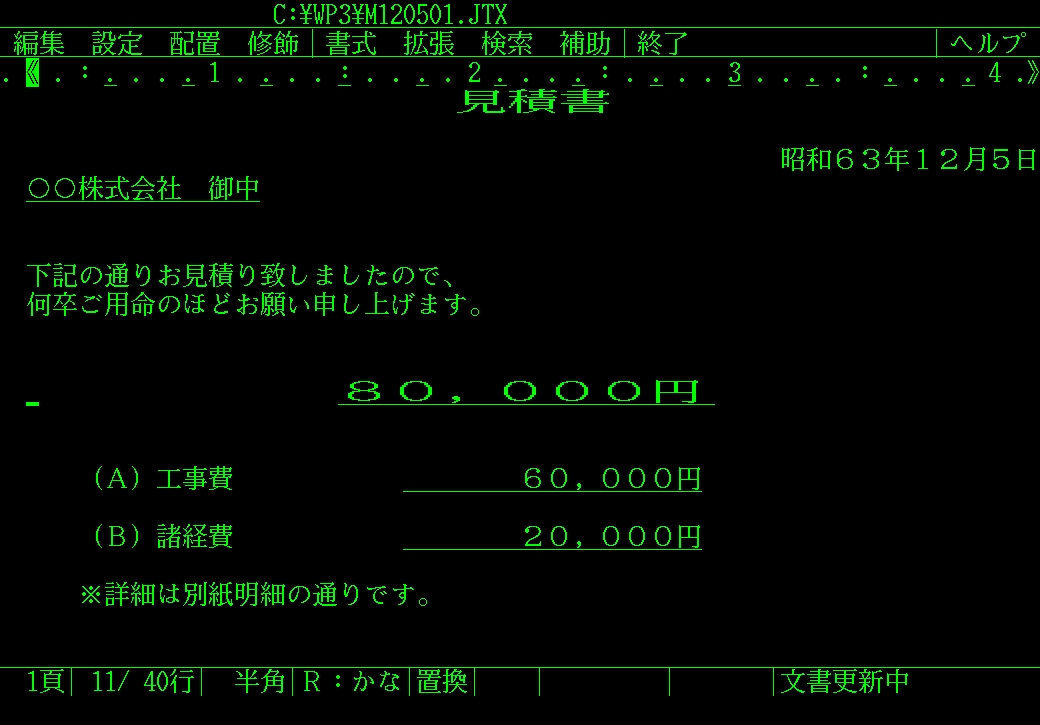 Screenshot of the Japanese word processor software, DOS Writing Program III (DOS文書プログラムIII) released by IBM Corp, making an estimate.